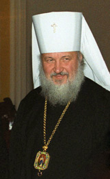 Metropolitan Kirill